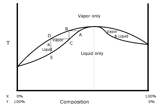 Subject: Phase diagram of solvent-pair having a negative azeotrope. Created with GIMP on 12-April-2007 Status: Released to public domain